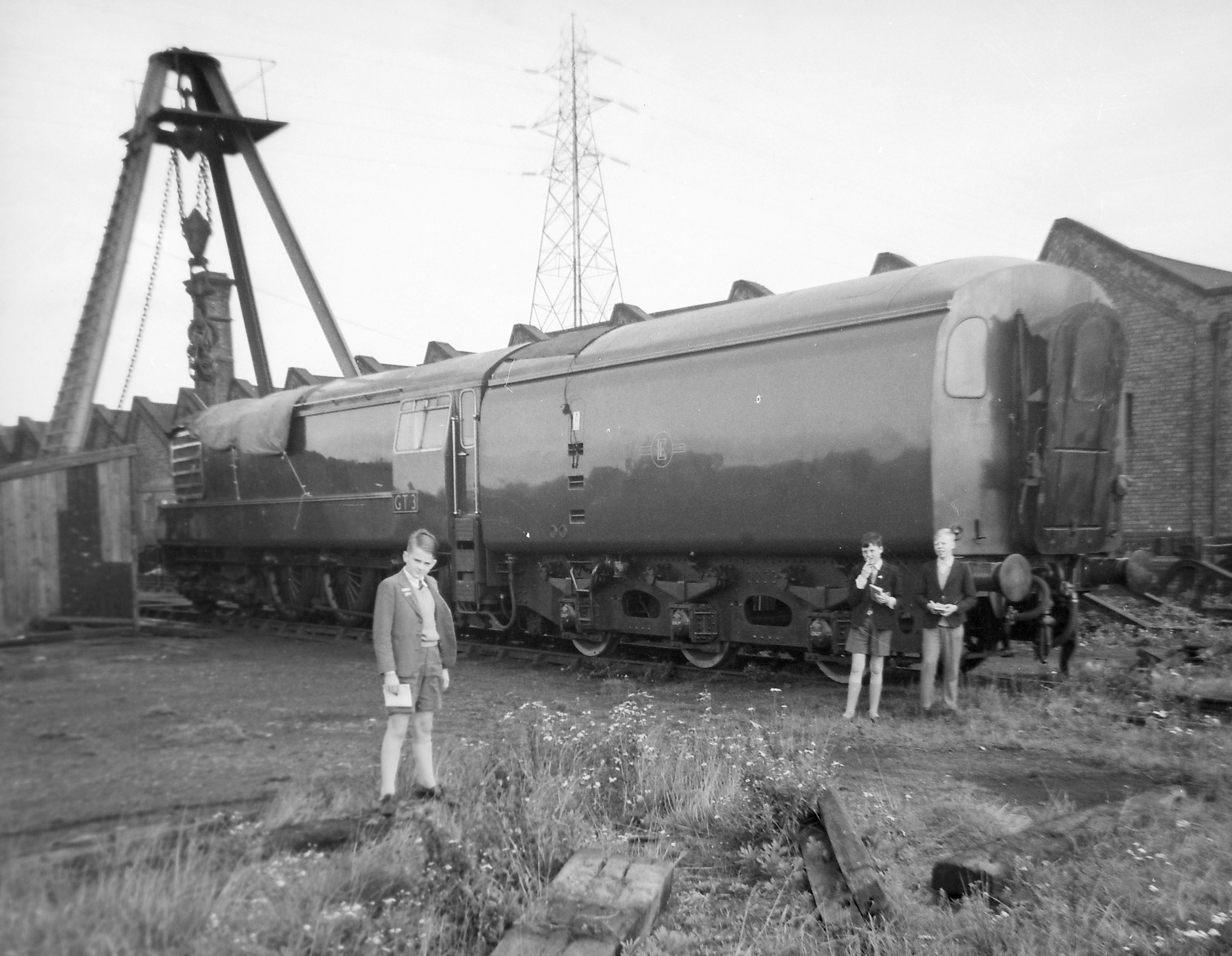 GT3 locomotive on shed at Leicester with myself and other trainspotters. Not sure of exact date,but sometime in 1961